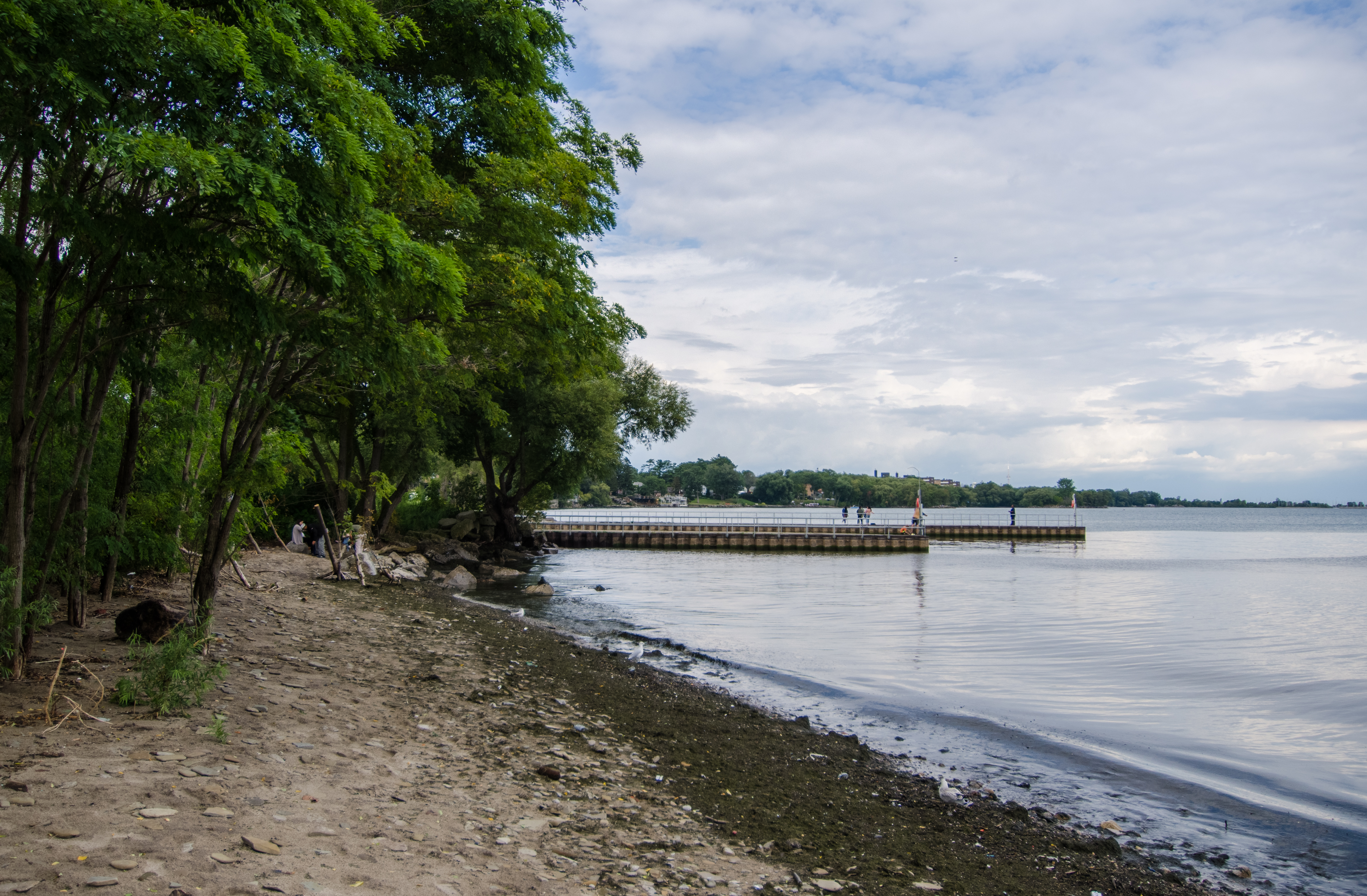 Seen in Shadowhunters & Room.